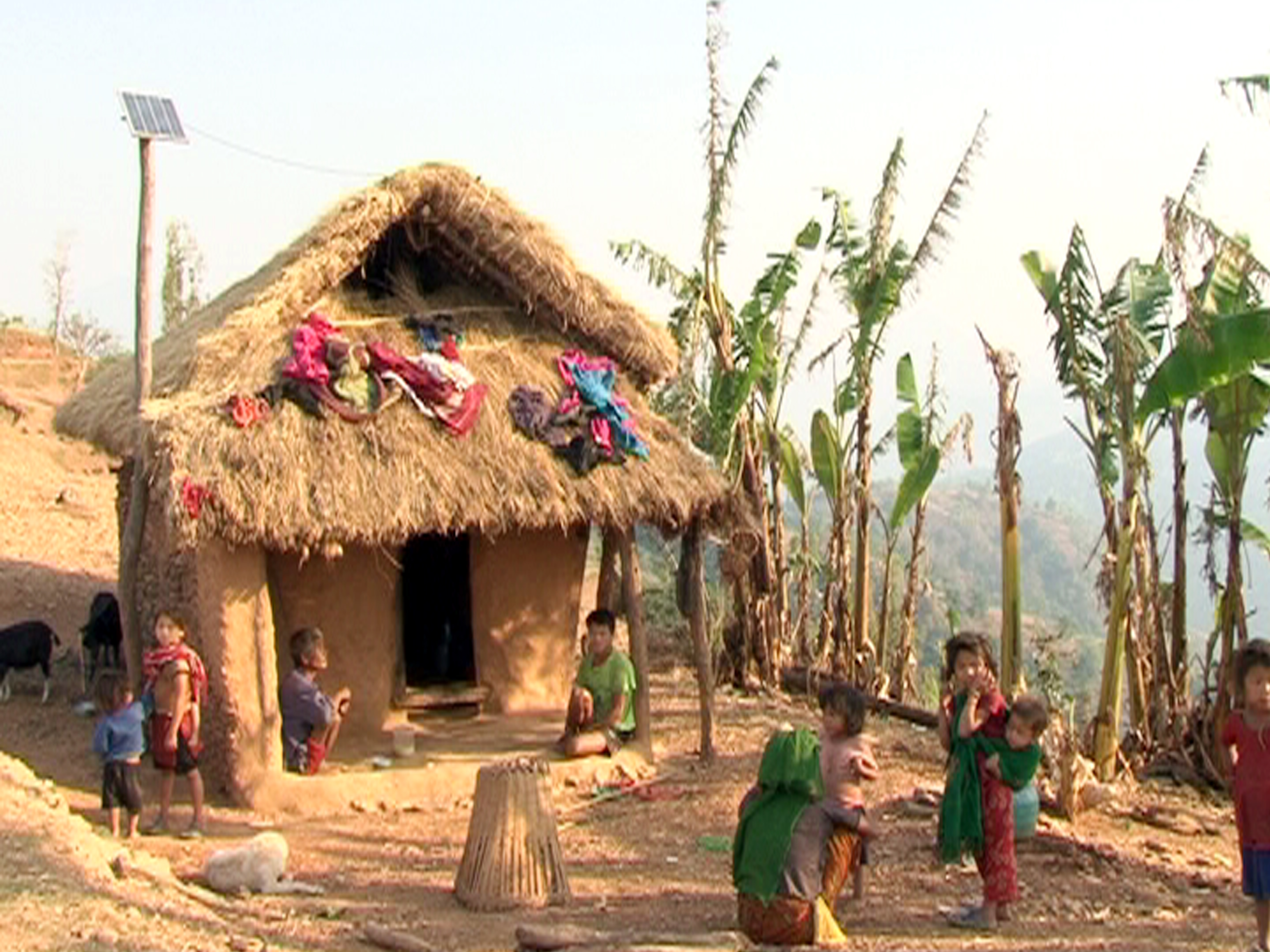 Home of chepang in Makawanpur District.